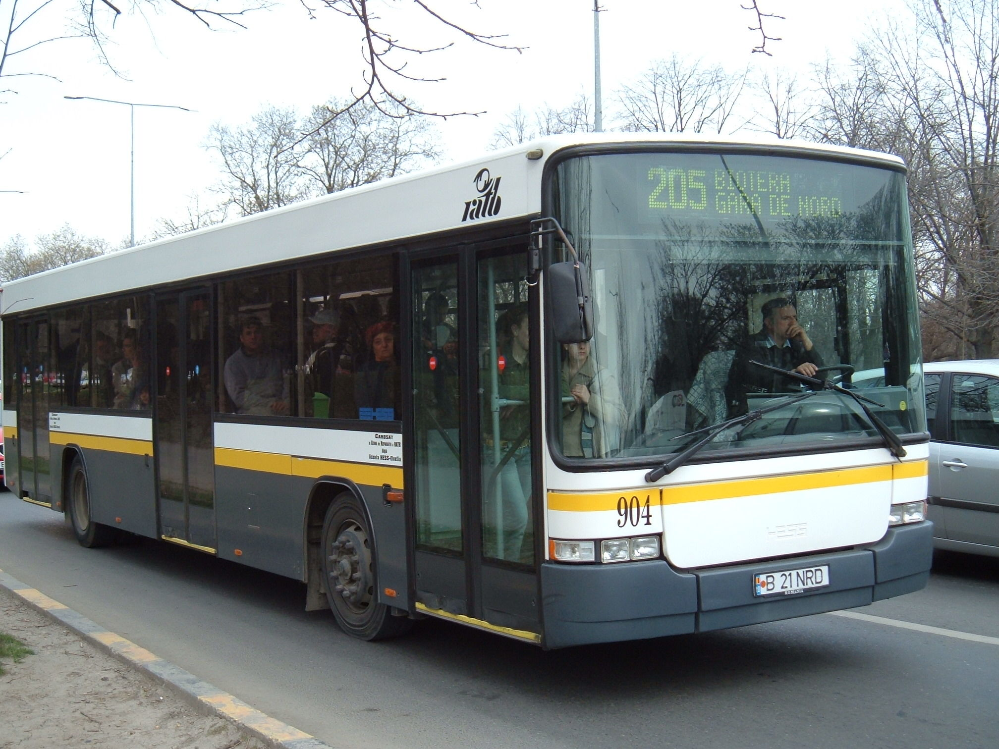 Public HESS bus in Bucharest, Romania . RATB București operator.